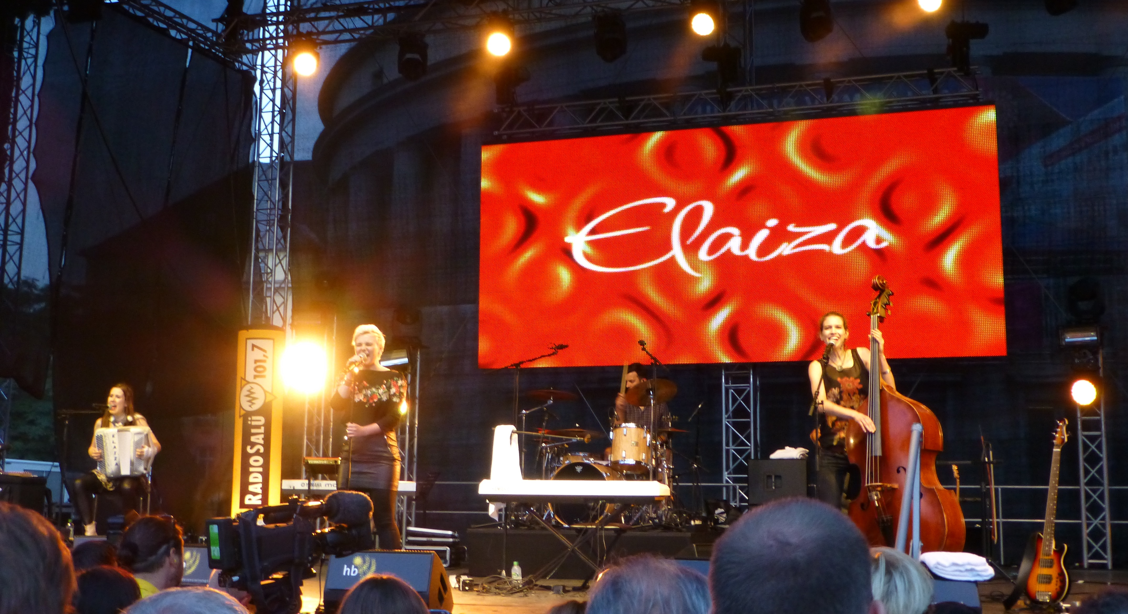 Elaiza on the Radio Salü stage at the Saarspektakel 2014 in Saarbrücken